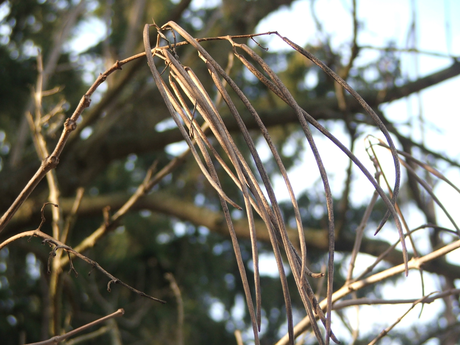 Crops of Catalpa kaempferi - MTA Botanic Garden, Hungary